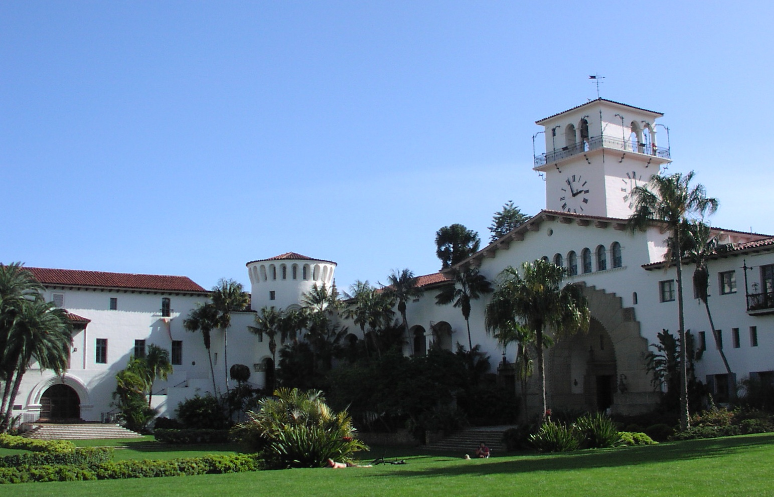 Santa Barbara County Courthouse, March 2005